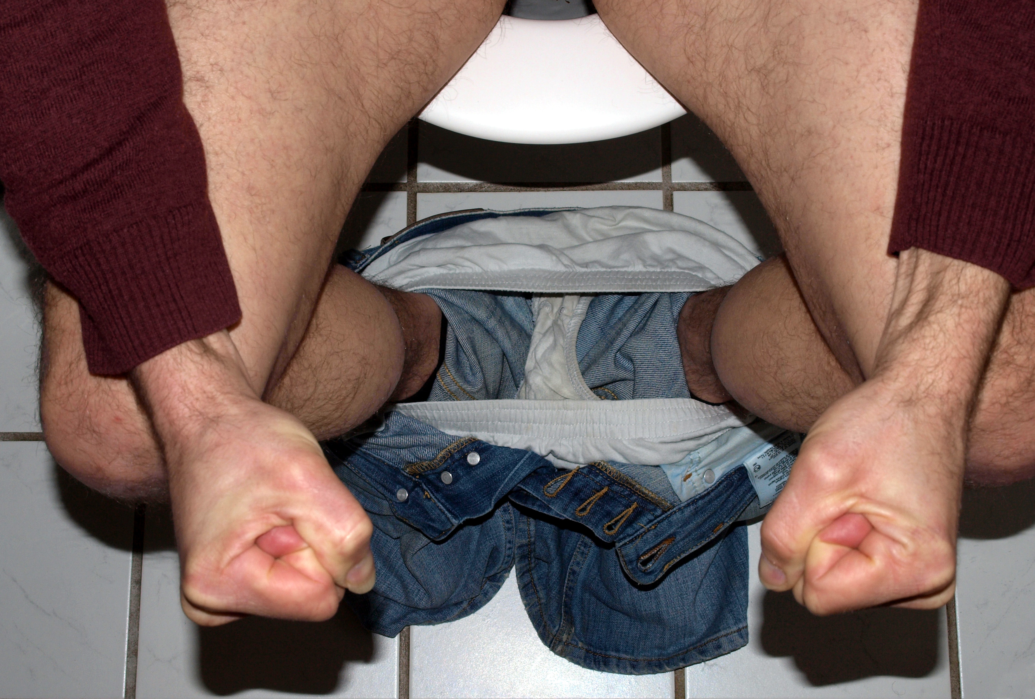 Wrong defecation behaviour can cause hemorrhoids (piles).